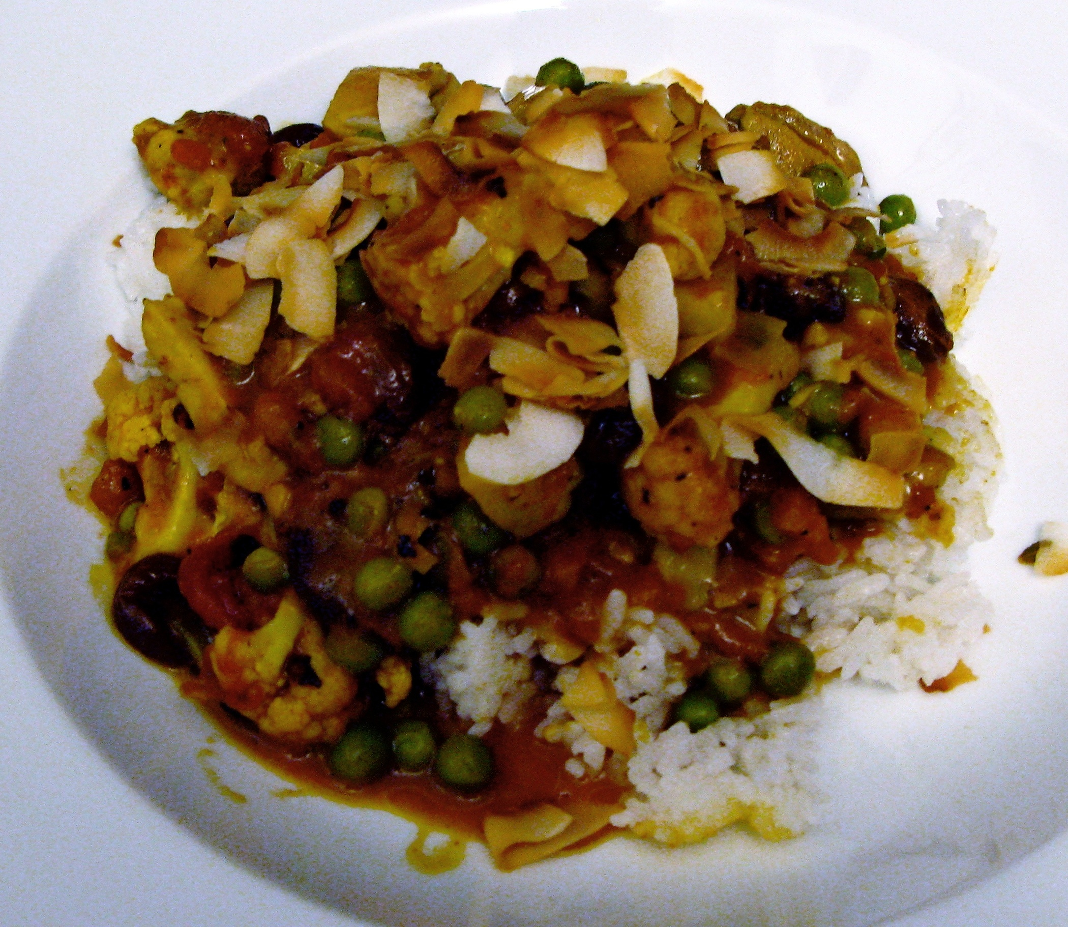 Country Captain which popular in the Southern United States